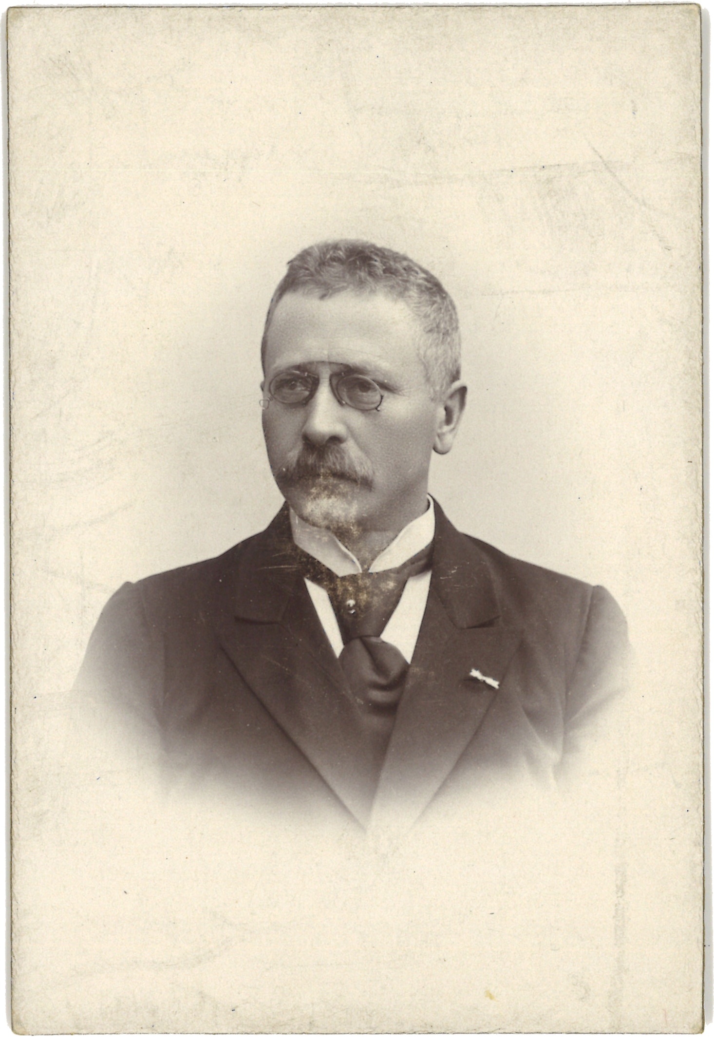 Bengt Jönsson (1849-1911), Swedish botanist, professor and rector (vice chancellor) of Lund University.